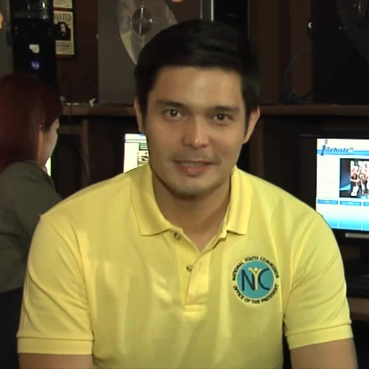 Screenshot of then-NYC Commissioner Dantes from a video by COMELEC.